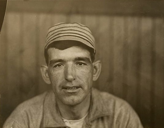 Photograph shows Ira Thomas, catcher for the Philadelphia Athletics, head-and-shoulders portrait, facing front. Photo courtesy of the Library of Congress.